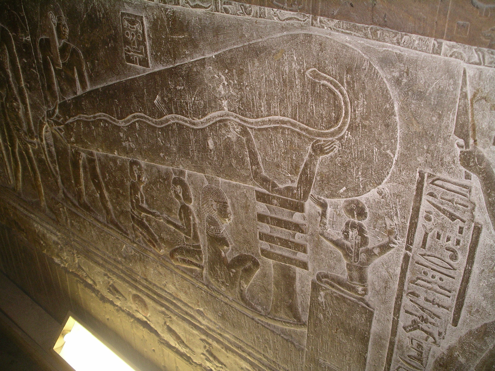 The so-called Dendera light in one of the crypts of Hathor temple at the Dendera Temple complex in Egypt, showing the single representation on the left wall of the right wing of the crypt. Photographed February 6, 2005, by Lasse Jensen